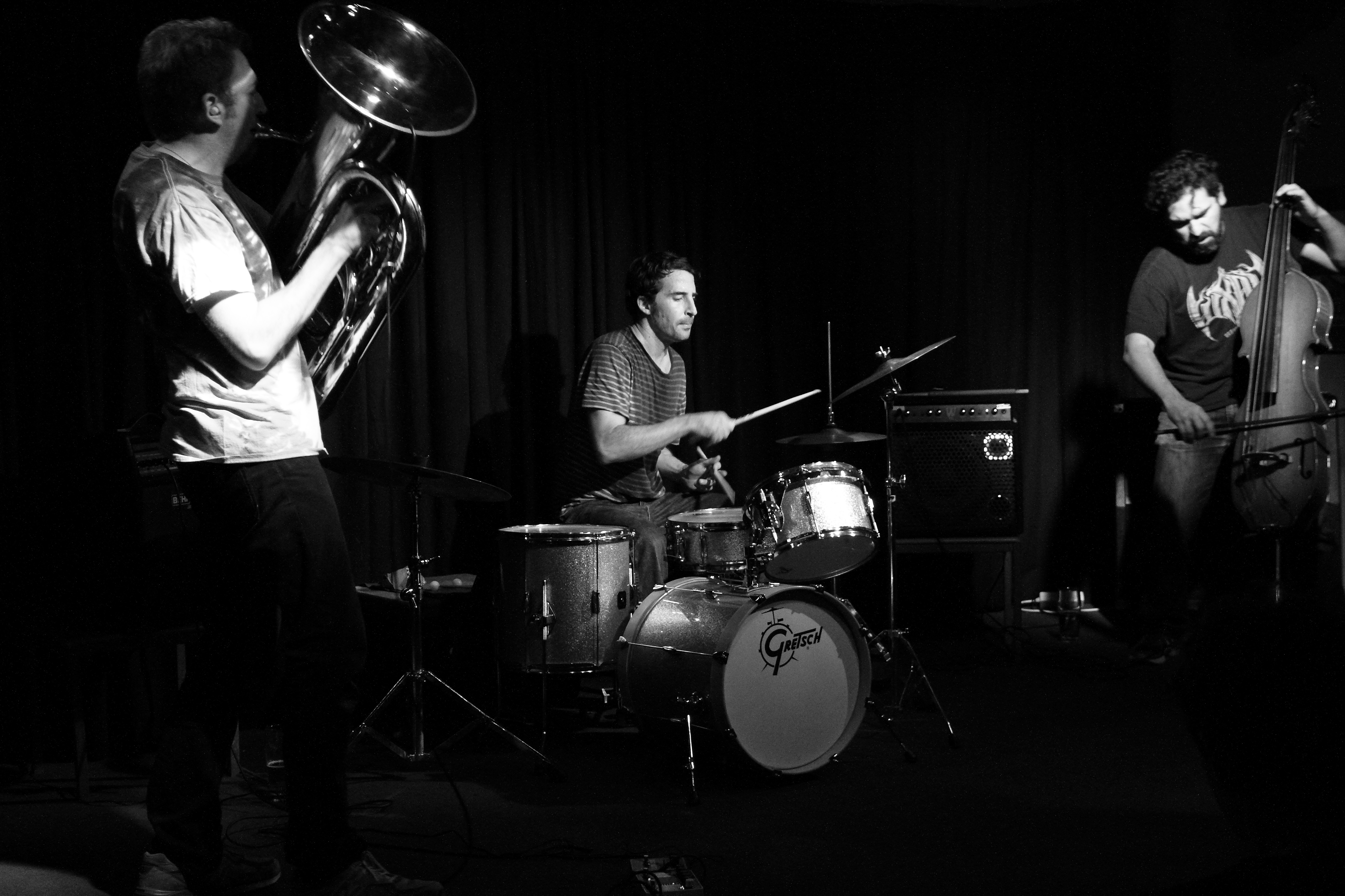 Dan Peck & The Gate at Club W71, Weikersheim.